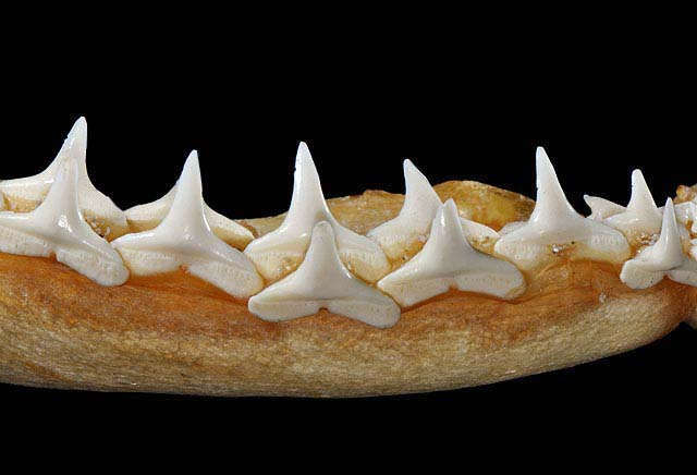 Carcharhinus falciformis